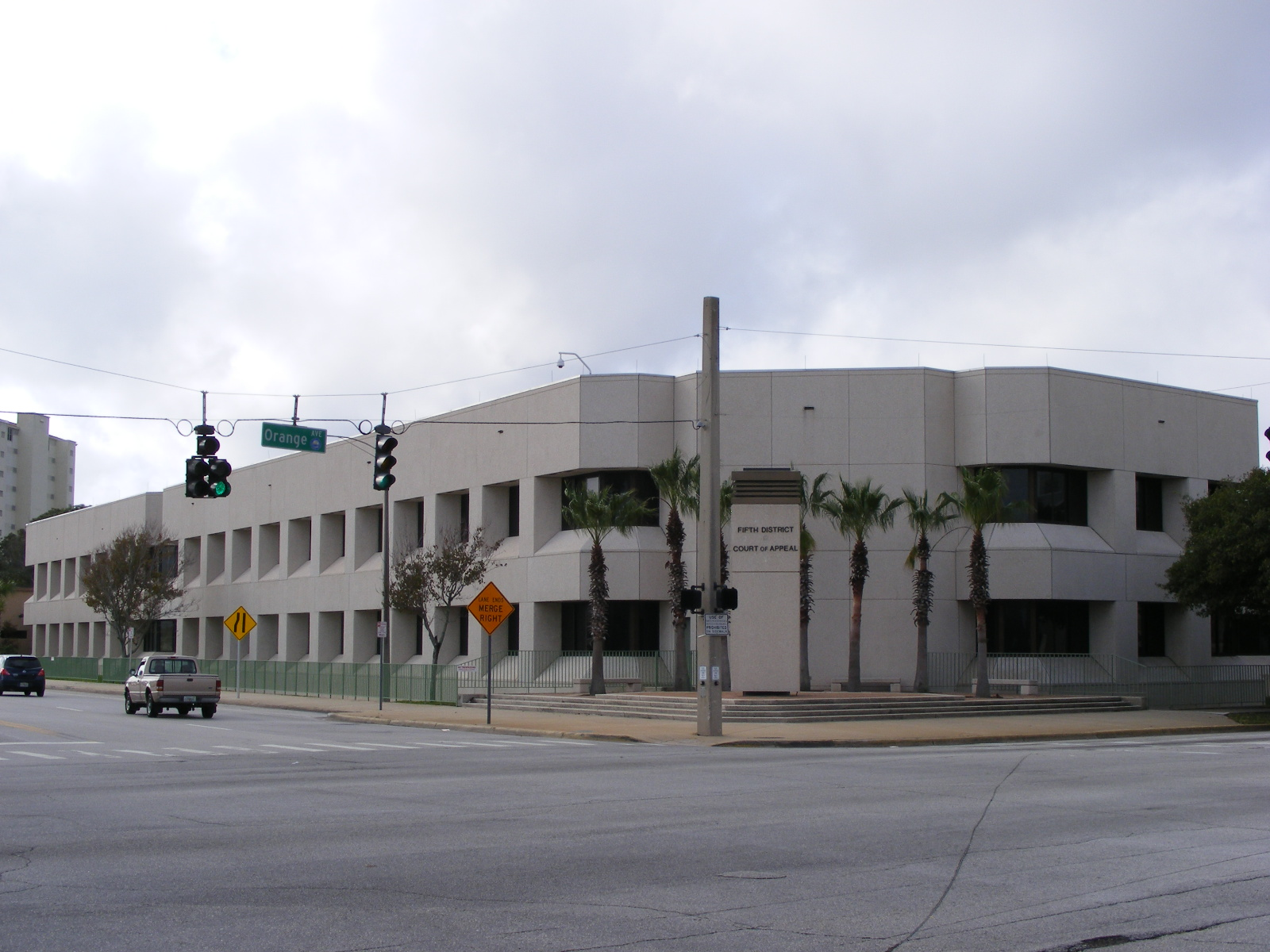 Florida's Fifth District Court of Appeal Building, Orange Ave. and Beach St., Daytona Beach, Volusia County, Florida.